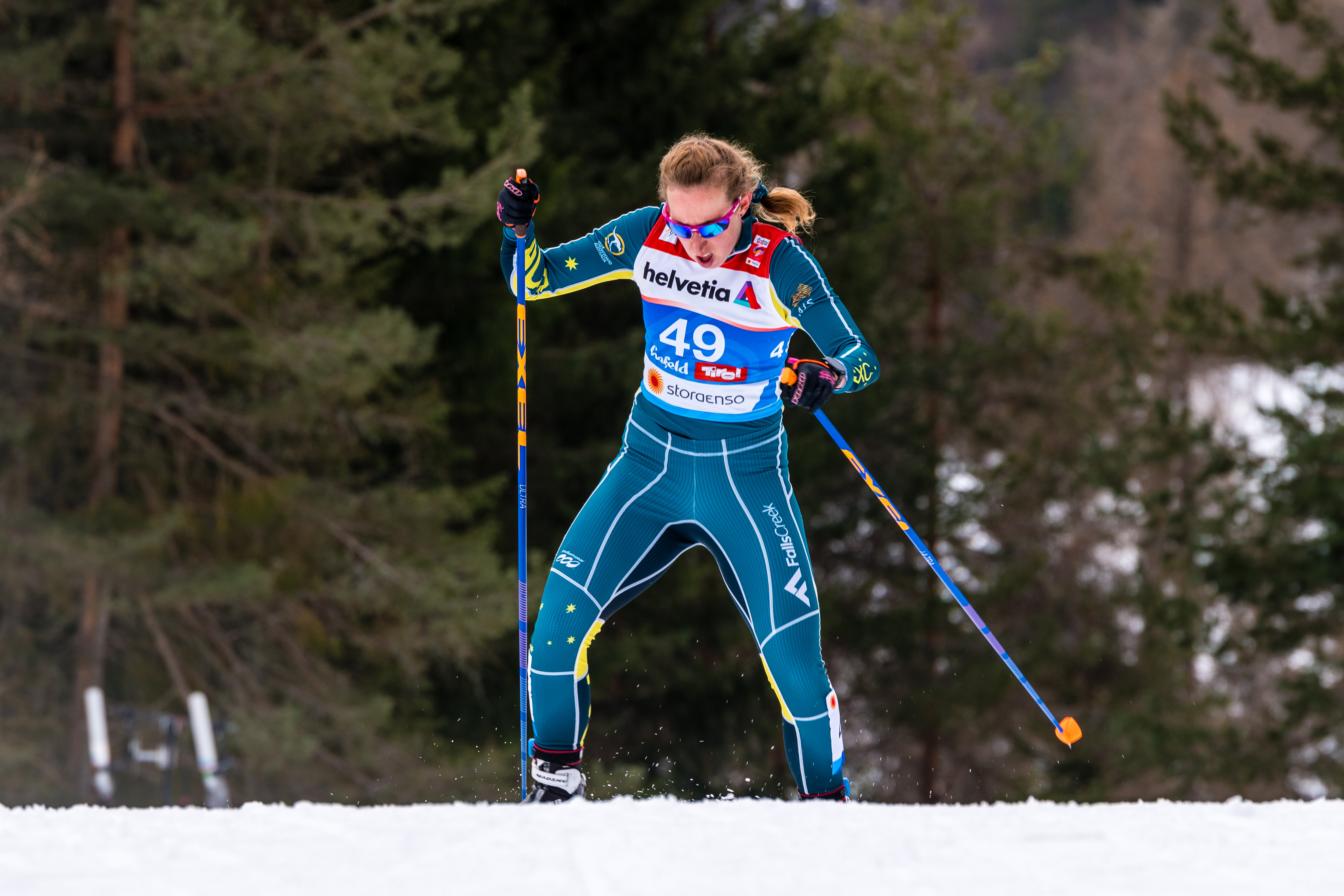 FIS Nordic World Ski Championships Seefeld 2019 - Ladies 30km Mass Start Free. Picture shows Aimee Watson (AUS).